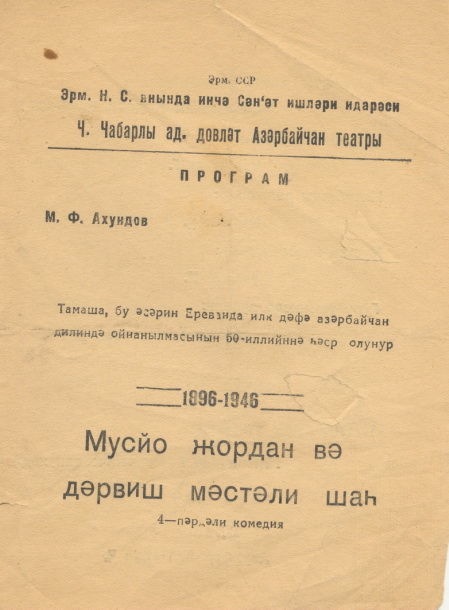 Program of "Musyo Jordan and dervidh Mastali shah" play in Yerevan State Azerbaijani Theatre named after Jabbar Jabbarly